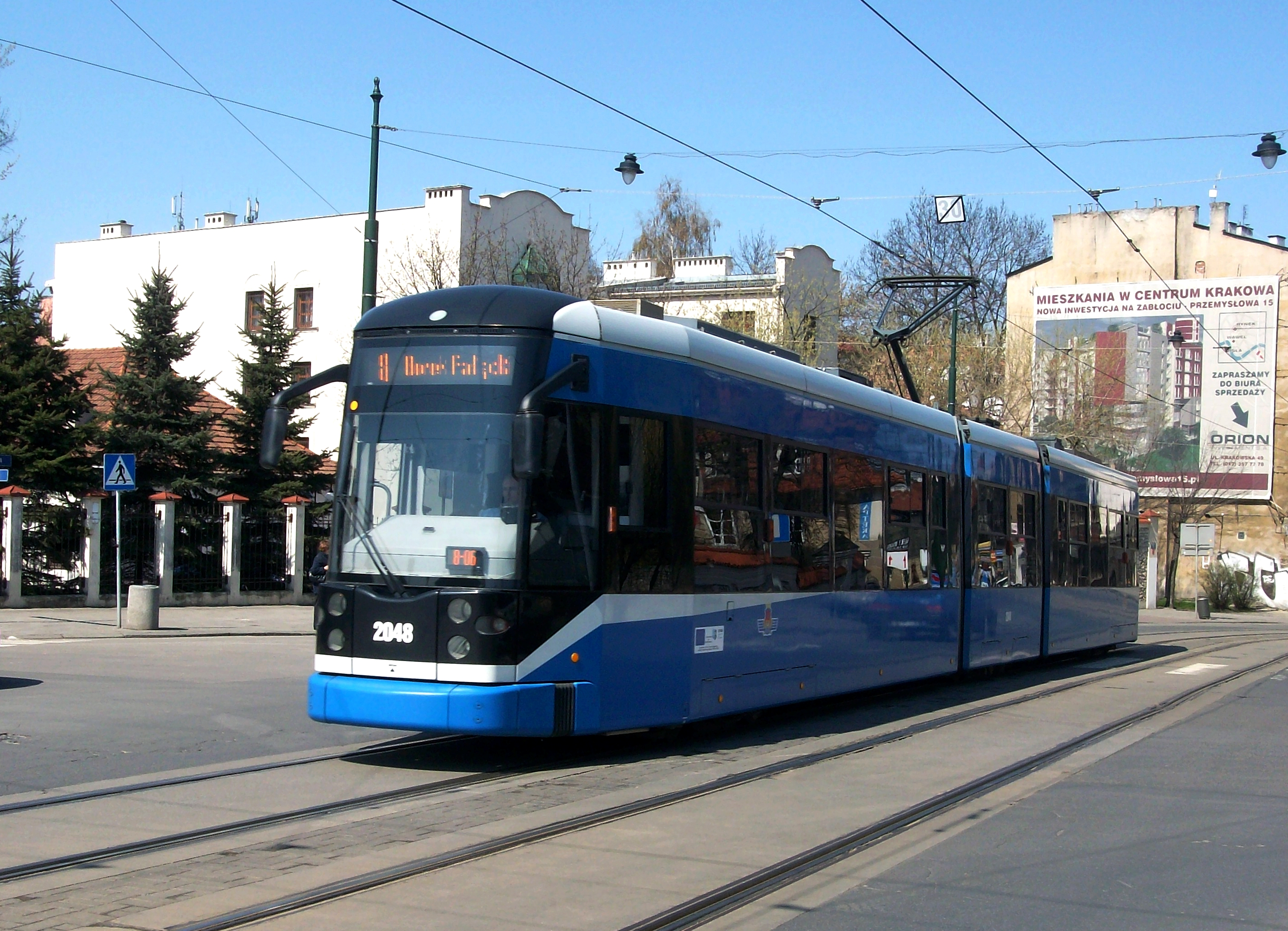 NGT6-2, Kracow